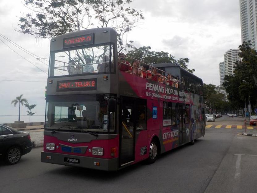 A Penang Hop-On Hop-Off open-top double decker bus at Gurney Drive in the city of George Town in Penang.